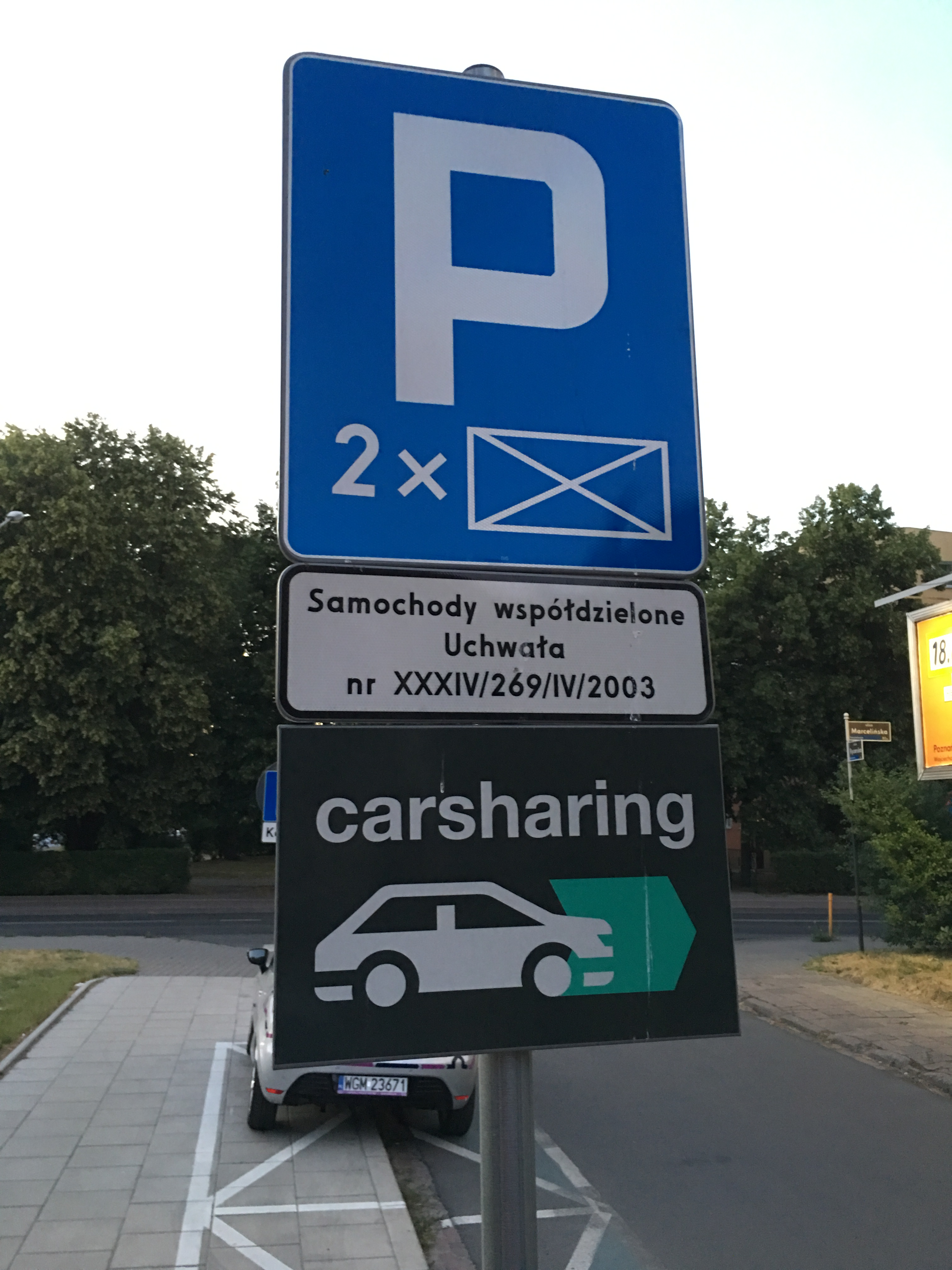 Dedicated parking spaces for carsharing cars at Rycerska St. in Poznan